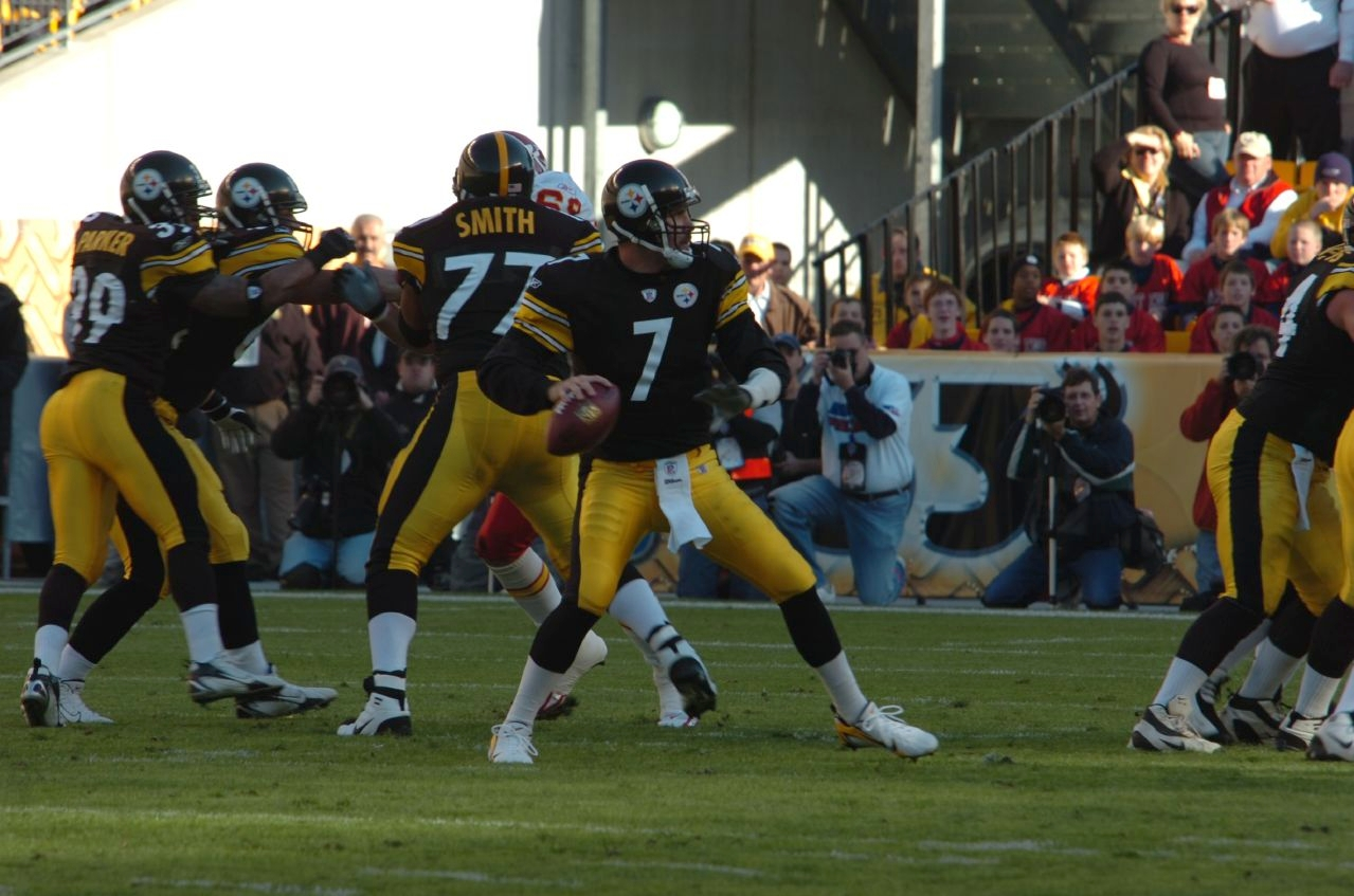 Ben Roethlisberger of the Pittsbrgh Steelers during an NFL game in 2006.